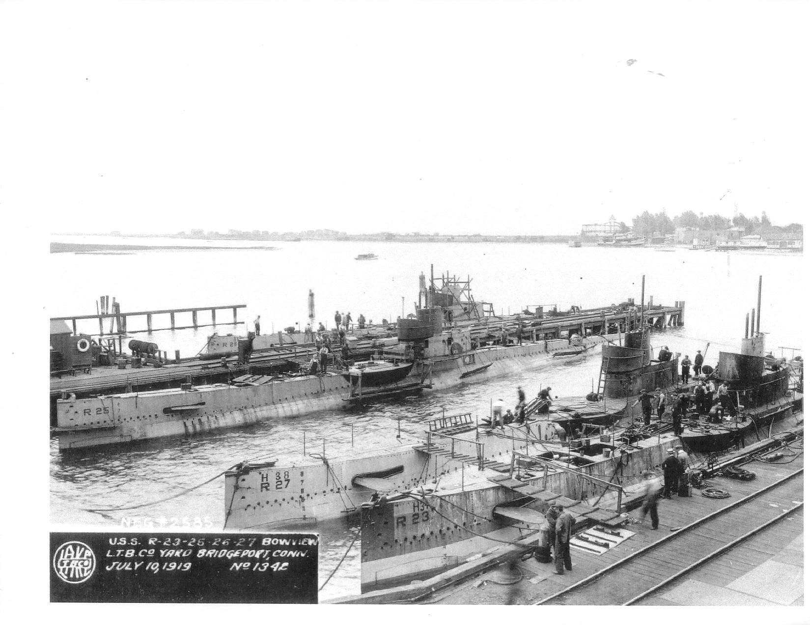 United States Navy submarines (left to right) , , , and at the Lake Torpedo Boat Company shipyard at Bridgeport, Connecticut, prior to their commissioning later that year. The "H" numbers on their hulls are Lake company building numbers.